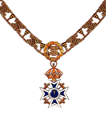 Author: Ianwatts Source: [1] License: Free of copyright, GNU